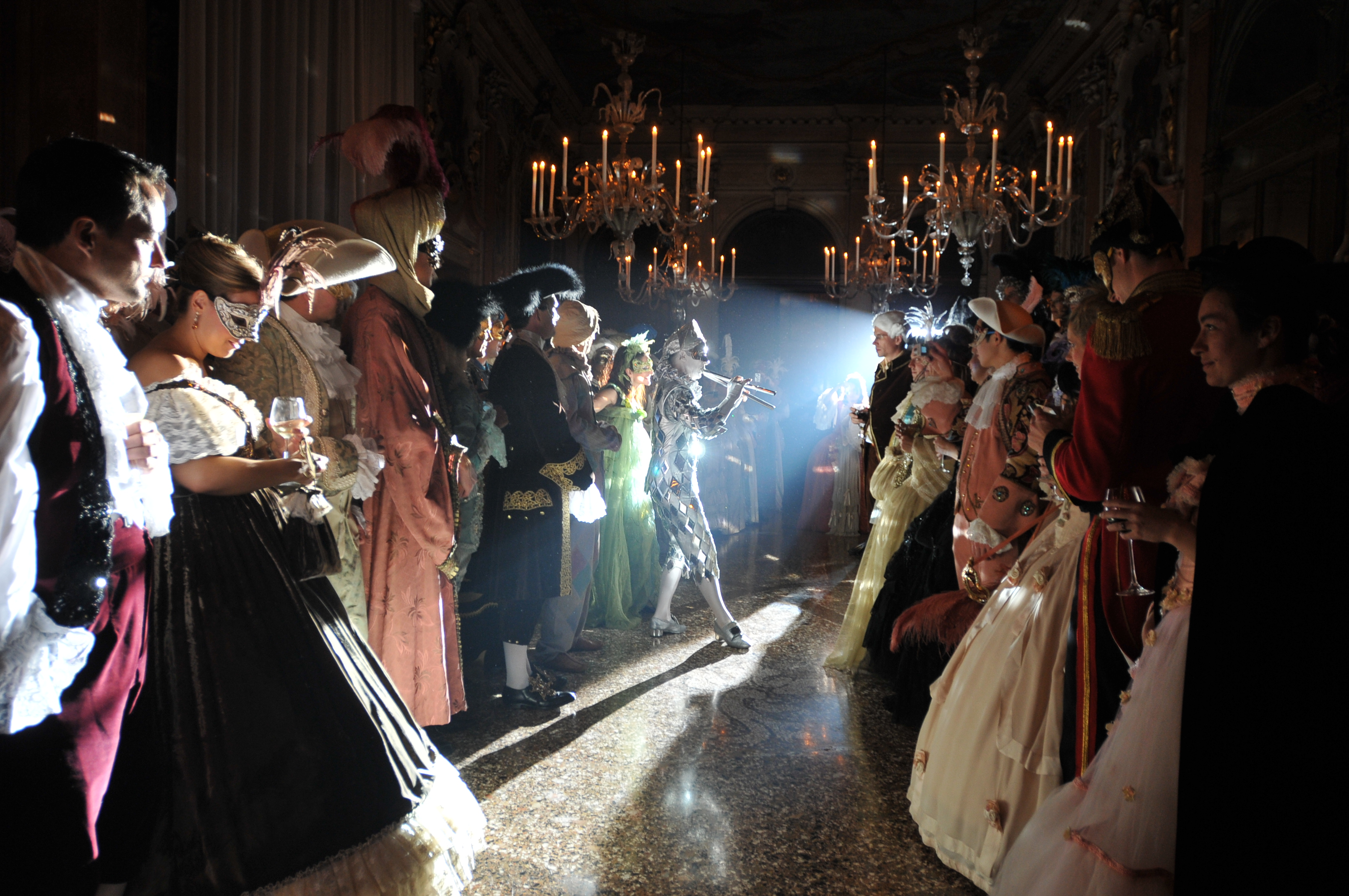 Il Ballo del Doge Harlequin